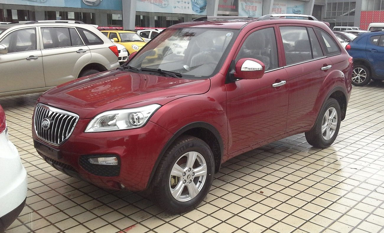 Lifan X60 photographed in Shanghai, China.